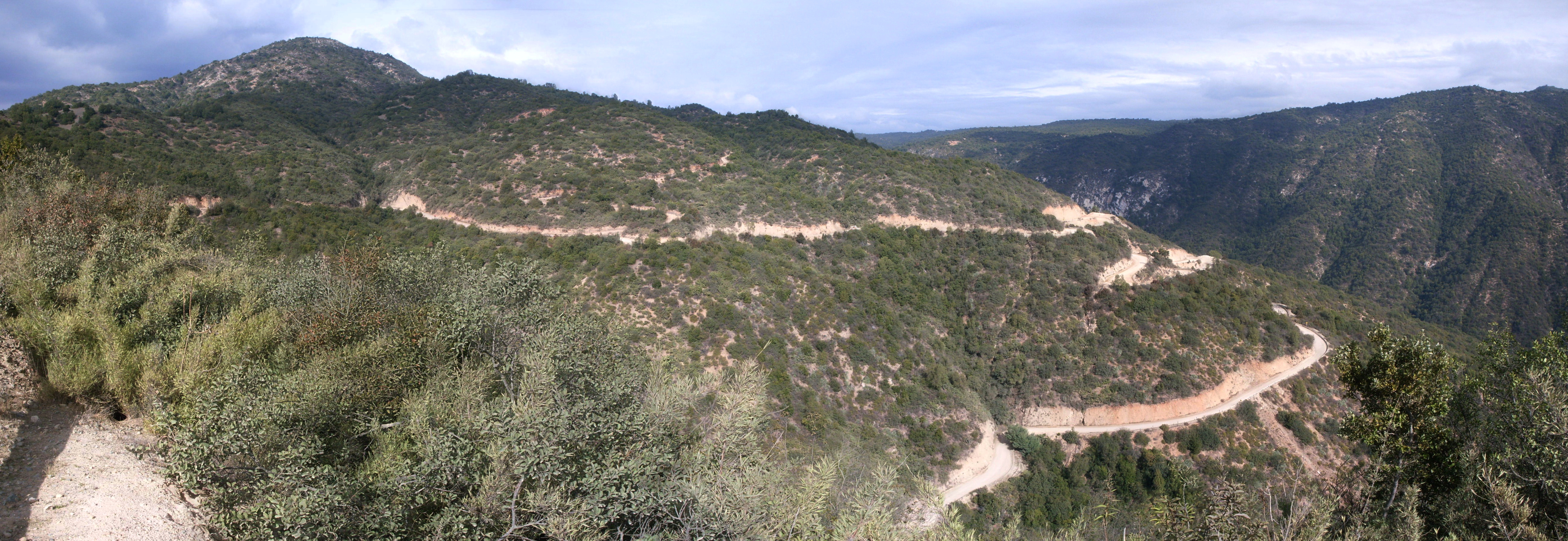 Panorama of the upper section of Colliguay access road slope.